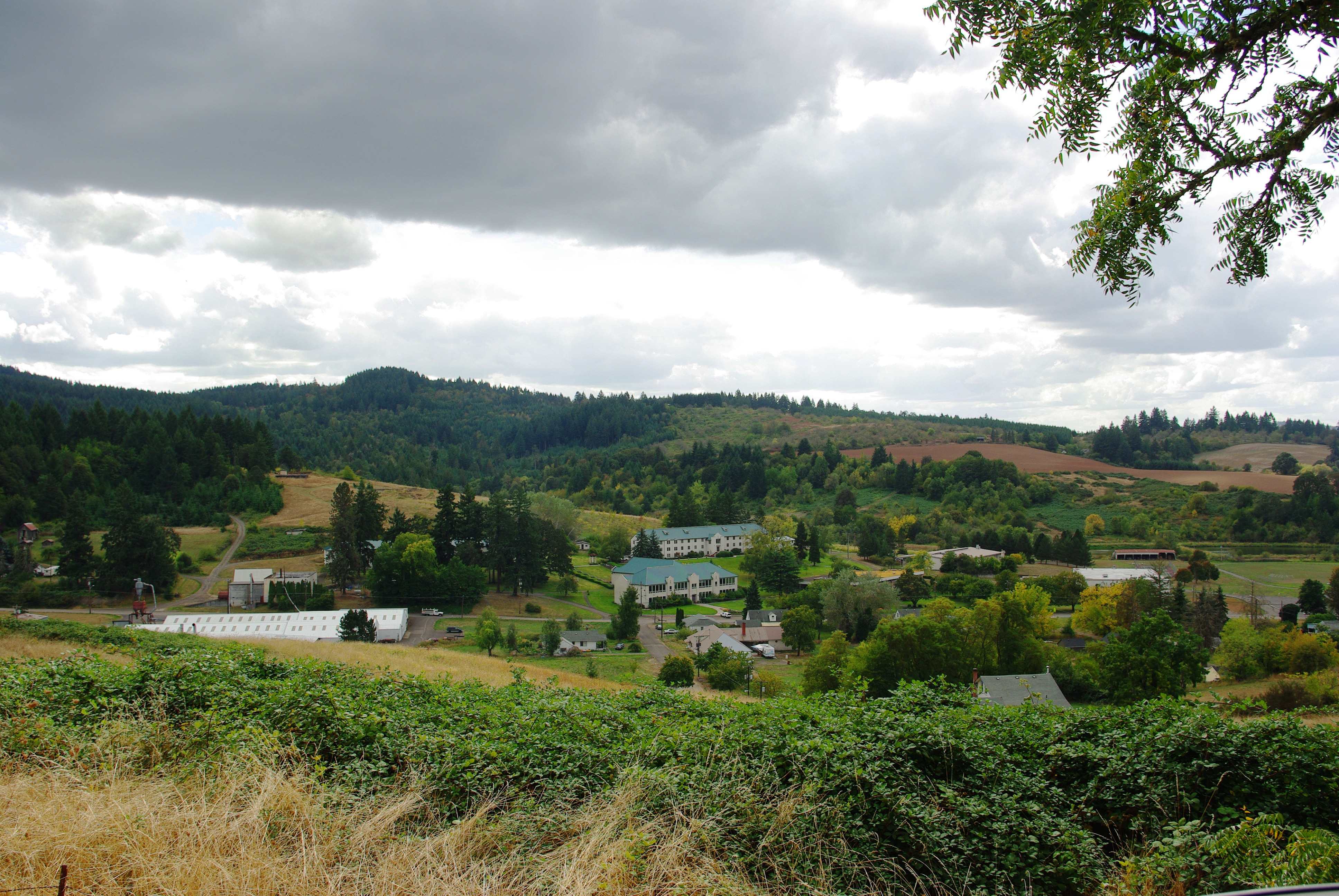 View of Laurelwood, Oregon, from Hartley Road.